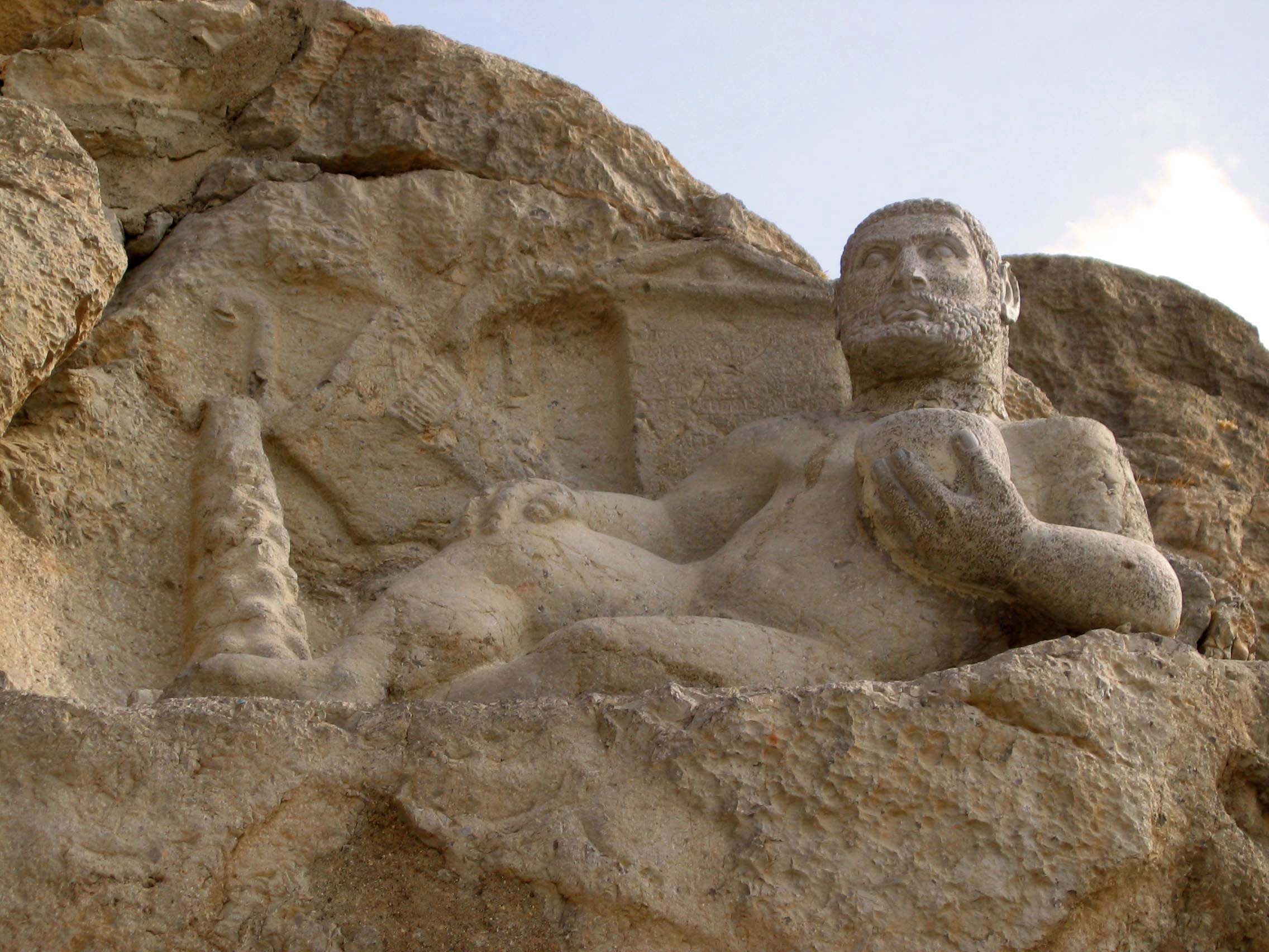 Hercule Statue, Bistoon, Kermanshah, Iran.